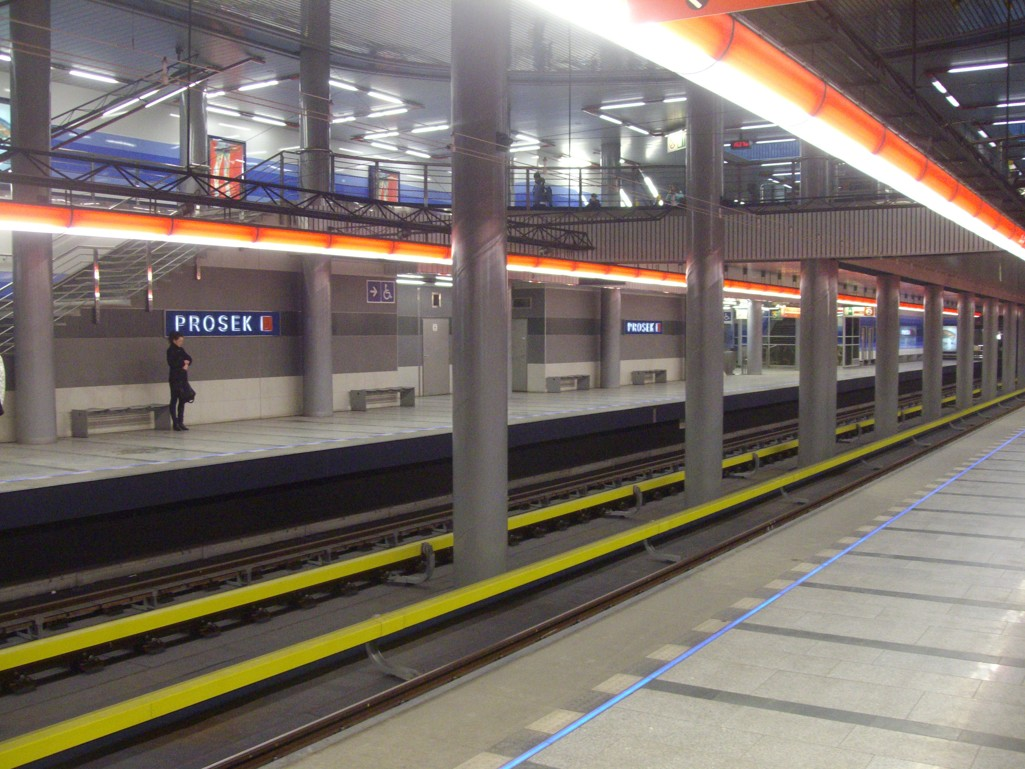 Prague 9, Subway station Prosek